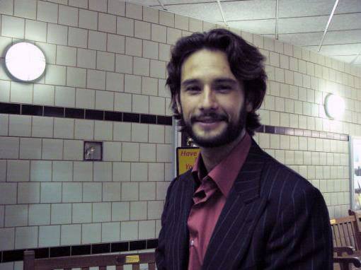 Photograph of actor Rodrigo Santoro in Stuyvesant High School, New York City